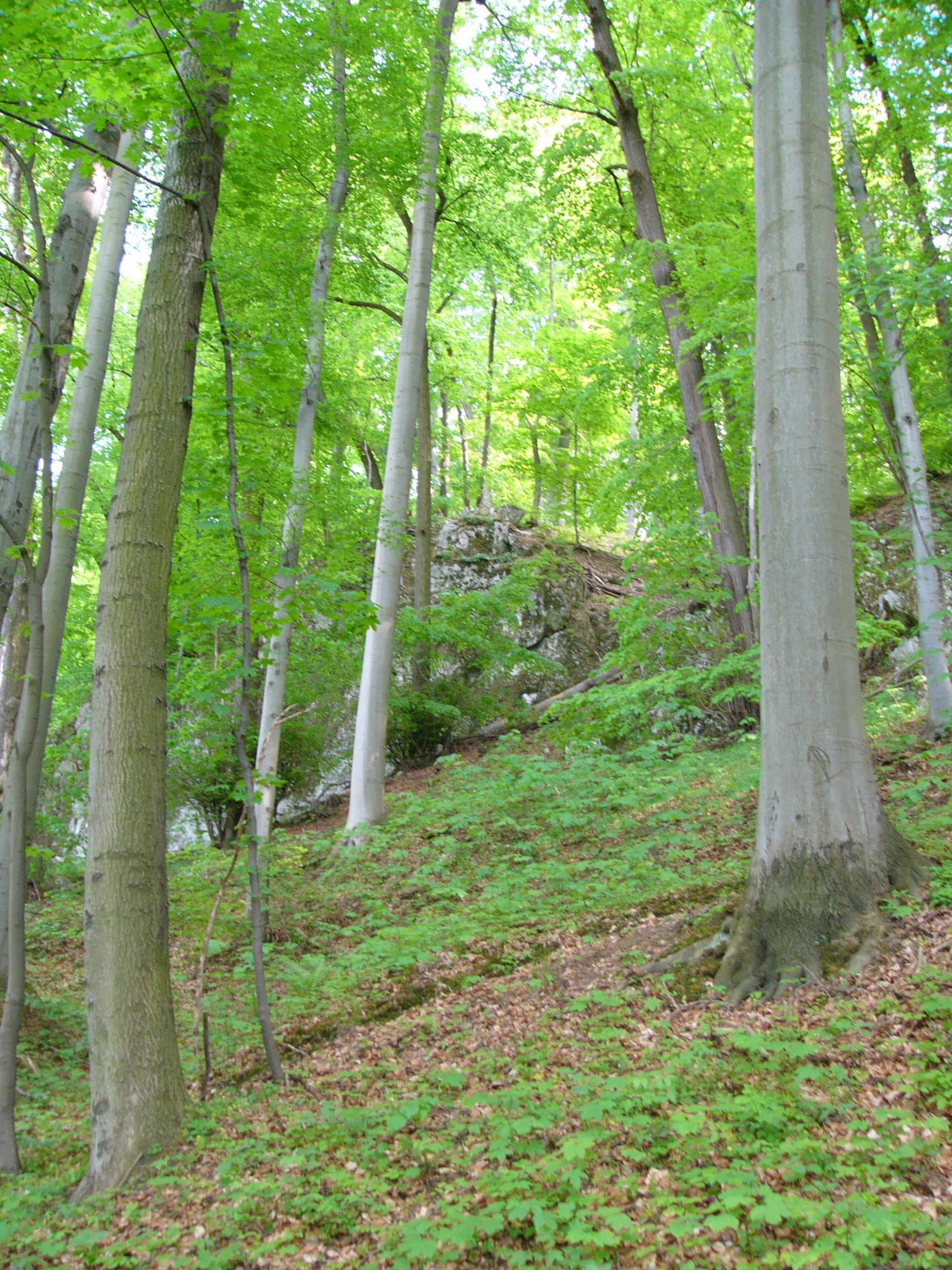 National natural monument Třesín in Litovelské Pomoraví protected landscape area in okres Olomouc (Czech Republic). Beech (Fagus sylvatica) forests.